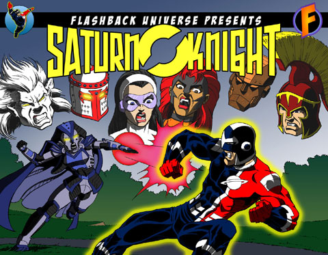 Saturn Knight: Same Time, Next Year - the world's first Digital Comic desiged specifically for cbr format.